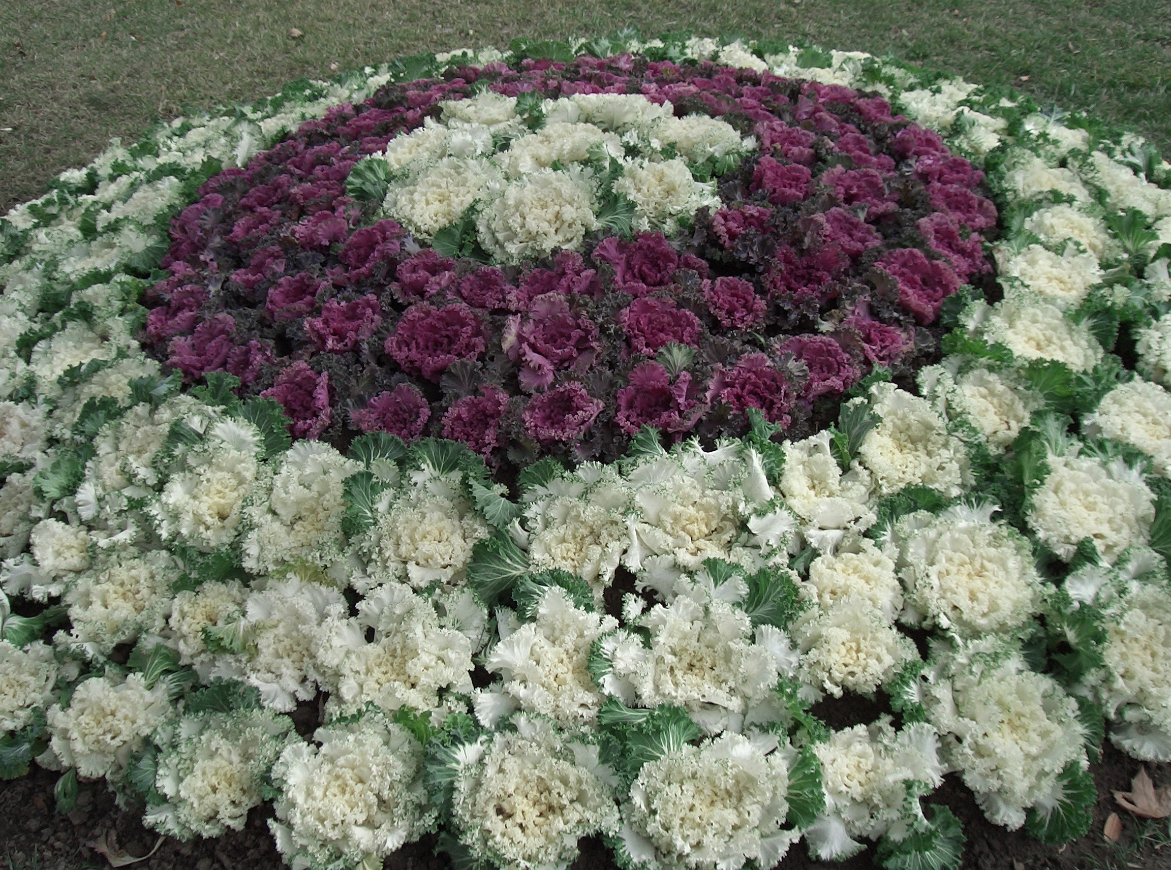 Purple and white cabbages planted in a circular pattern from a pretty garden in Shanghai, China.